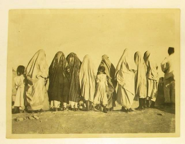 Group of Iraqi Women & Children, Baghdad, Iraq, World War I, 1914-1918